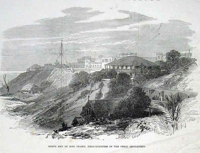 Headquarters of the Penal Establishment at the North End of Ross Island, Andaman and Nicobar Islands.